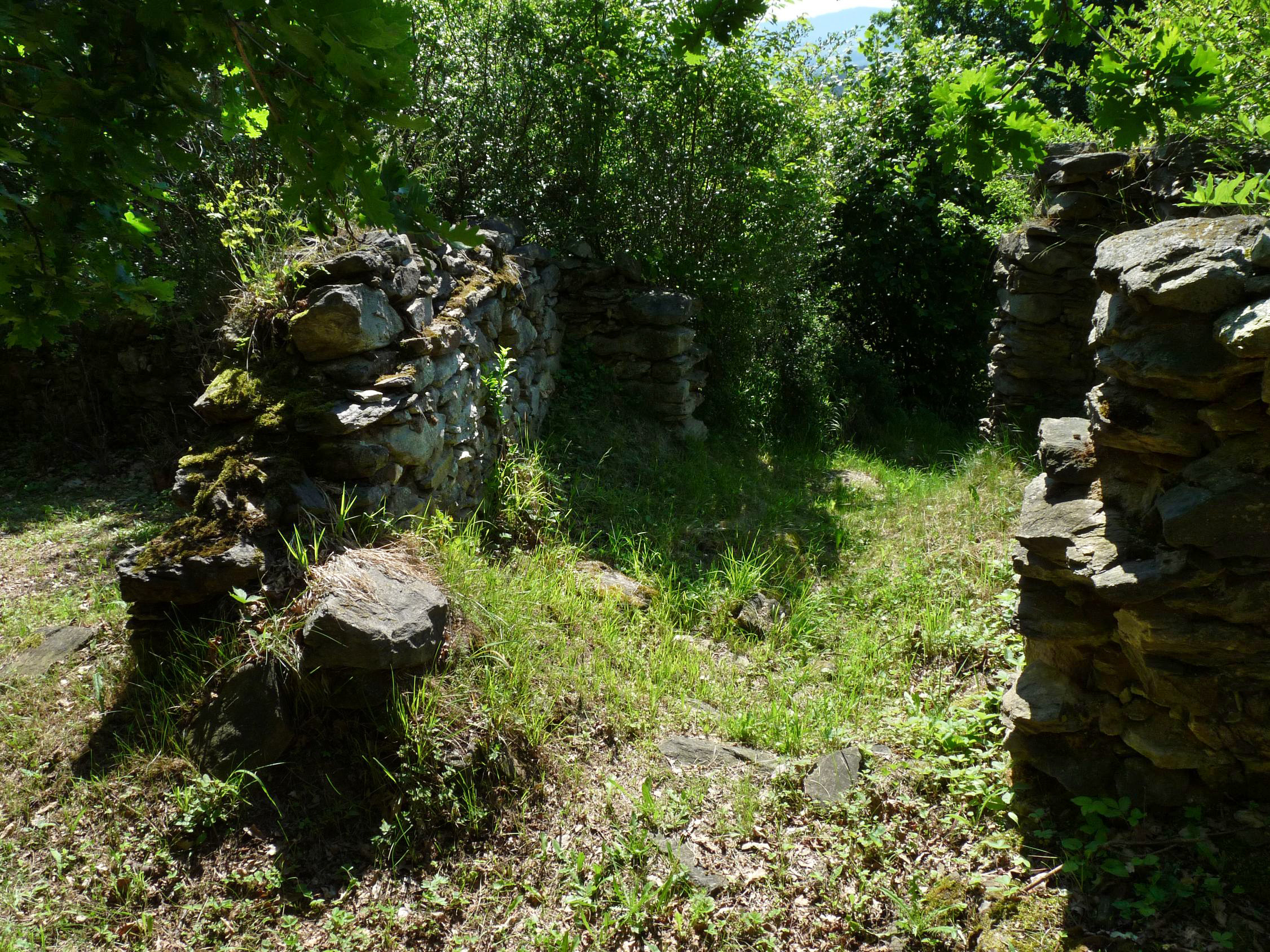 Ruins of the morgue to the Jewish cemetery by the municipality of Podmokly, Klatovy District, Plzeň Region, Czech Republic